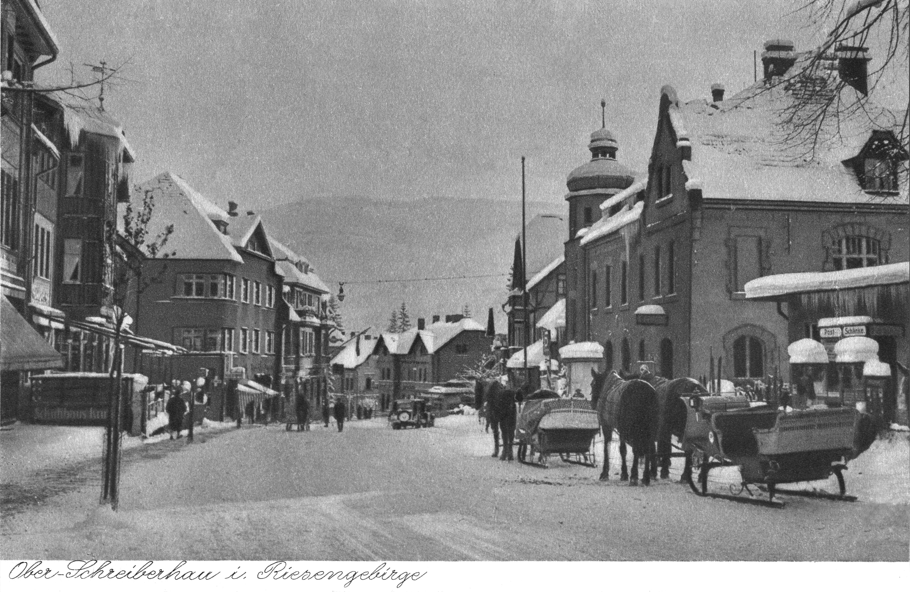 Szklarska Poreba, Germany, now Poland.